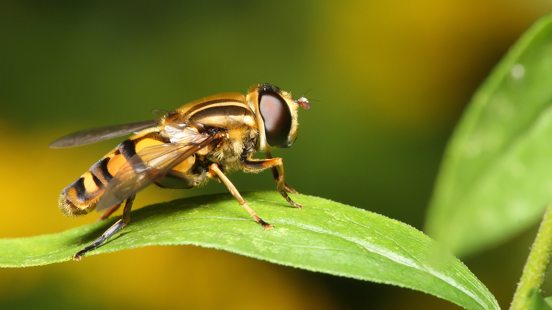 Species: (Helophilus intentus ) Curran & Fluke, 1922 Finding place: Restoule Provincial Park, Ontario, Canada -- 2008 September